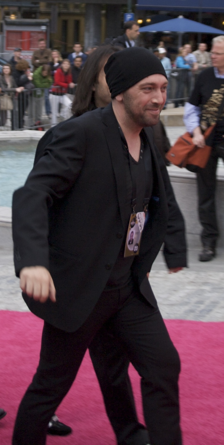 Giorgos Alkaios